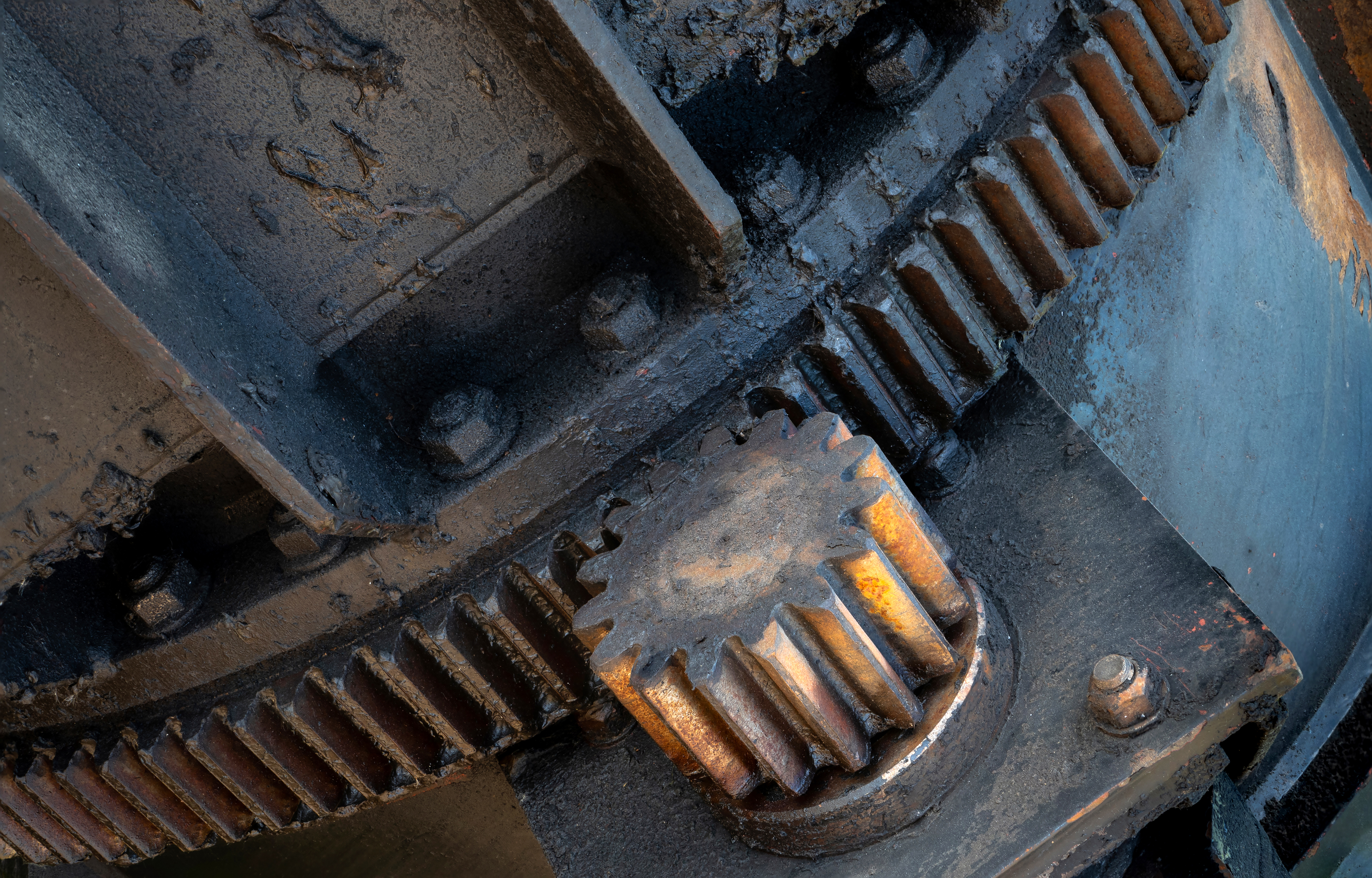 Detail of the huge grabs/claw part of one of the old stone cranes that used to be in operation in Rixö granite quarry, Lysekil Municipality, Sweden. The claw is on display close to the entrance of the quarry. The image is focus stacked from 13 photos.